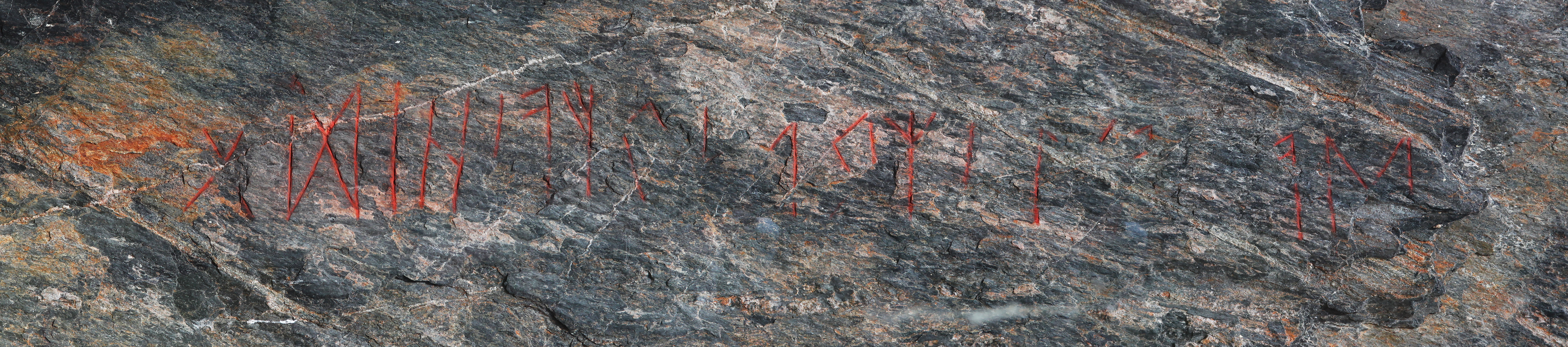 Runic inscription, Einangsteinen, c. 4th century AD [ek go]dagastiR ru[n]o faihido "[I, Go]dagasti painted the rune"